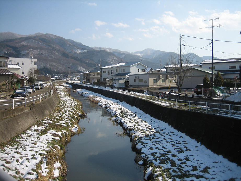 View of the mountains surrounding Aizuwakamatsu. Image was taken with a Canon PowerShot SD450 Digital Elph camera. Image file extension was changed using a Paint Shop program on a laptop computer.